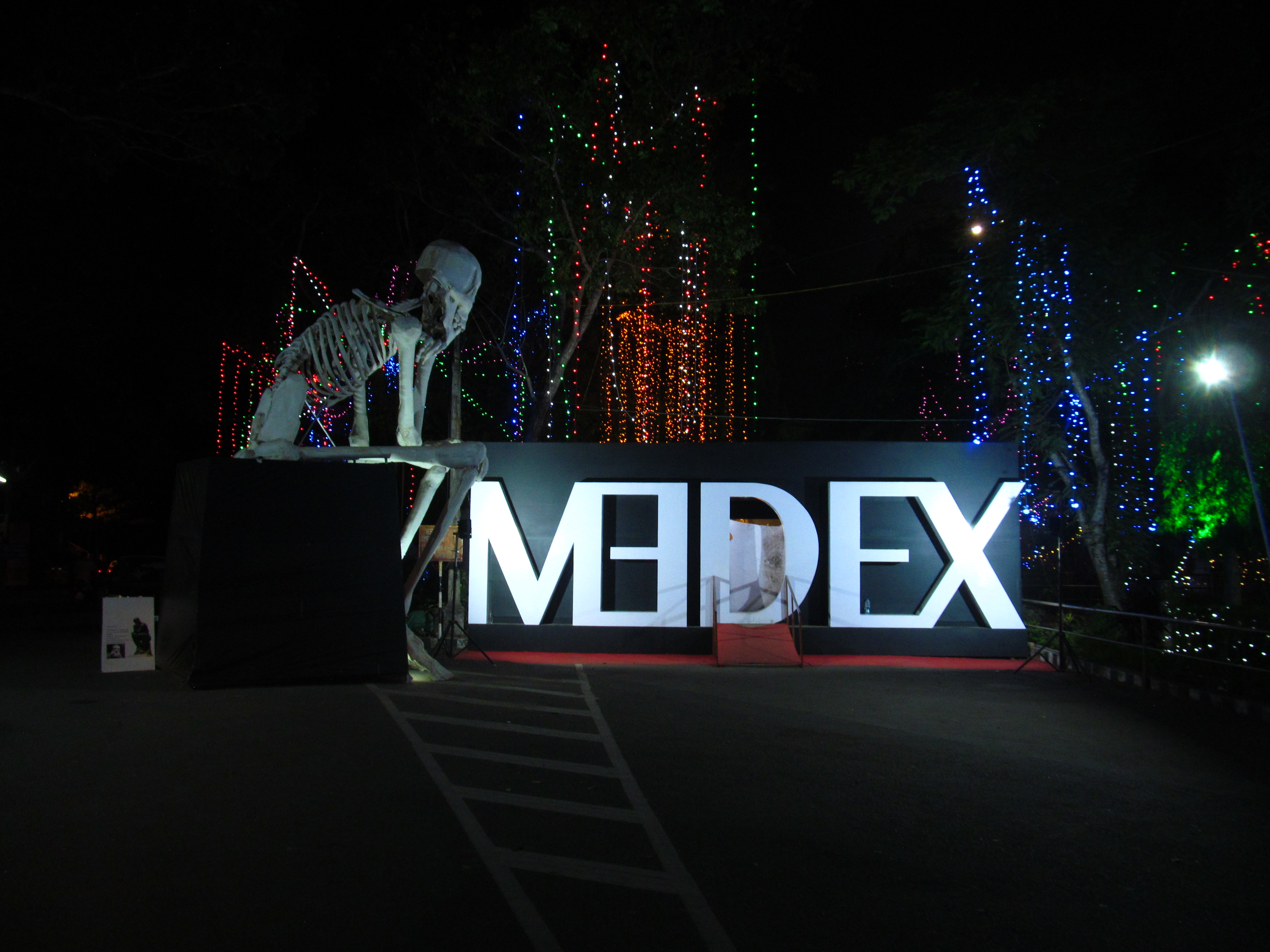 One of Keralas Biggest Medical exhibition Held at Trivandrum Medical College